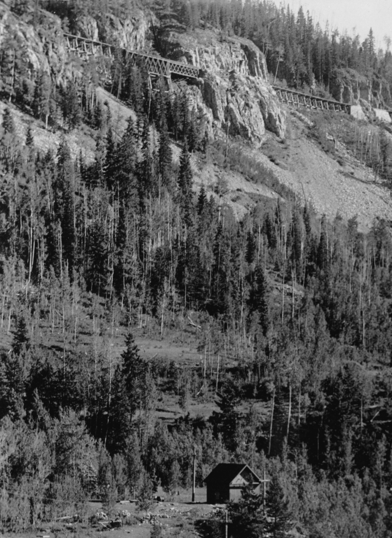 Trestles 46-D and 46-E on the High Line south of Ophir Loop on Rio Grande Southern Railroad.